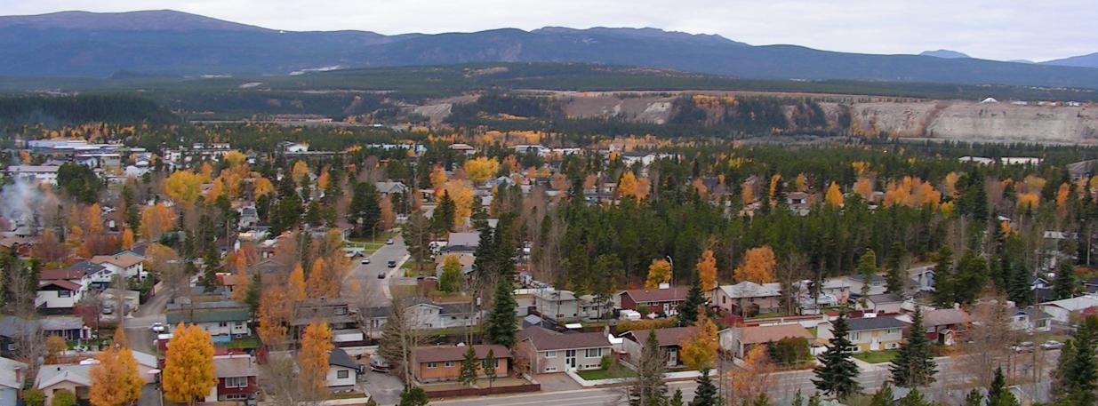 (Second Version) Whitehorse, Yukon, Canada. Taken September 2008. Similar to another picture I added only this one is narrower. Permission was given to me from my grandmother to upload (she took the picture).